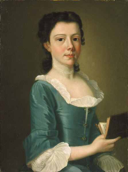 Mrs. Rawlins Lowndes (Sarah Jones) (1756/57–1801) Title: Mrs. Rawlins Lowndes (Sarah Jones) (1756/57–1801) Date: circa 1773 Artist: Jeremiah Theus Dimensions: 24 x 18 in. (61 x 45.7 cm) Frame: 30 3/4 x 24 1/2 x 2 1/4 in. (78.1 x 62.2 x 5.7 cm) Medium: Oil on canvas Credit Line: Purchased with funds from the State of North Carolina and Joseph Garnier Object Number: 70.54.1